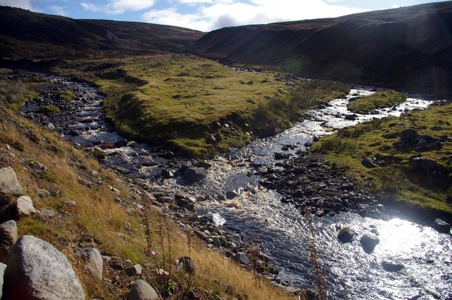 Comar Allt a' Ghille Charaich, near to Carn Fliuch-Bhaid [hill or Mountain], Highland, Great Britain. The confluence where "The crafty lad's burn" swells the waters of the infant River E.